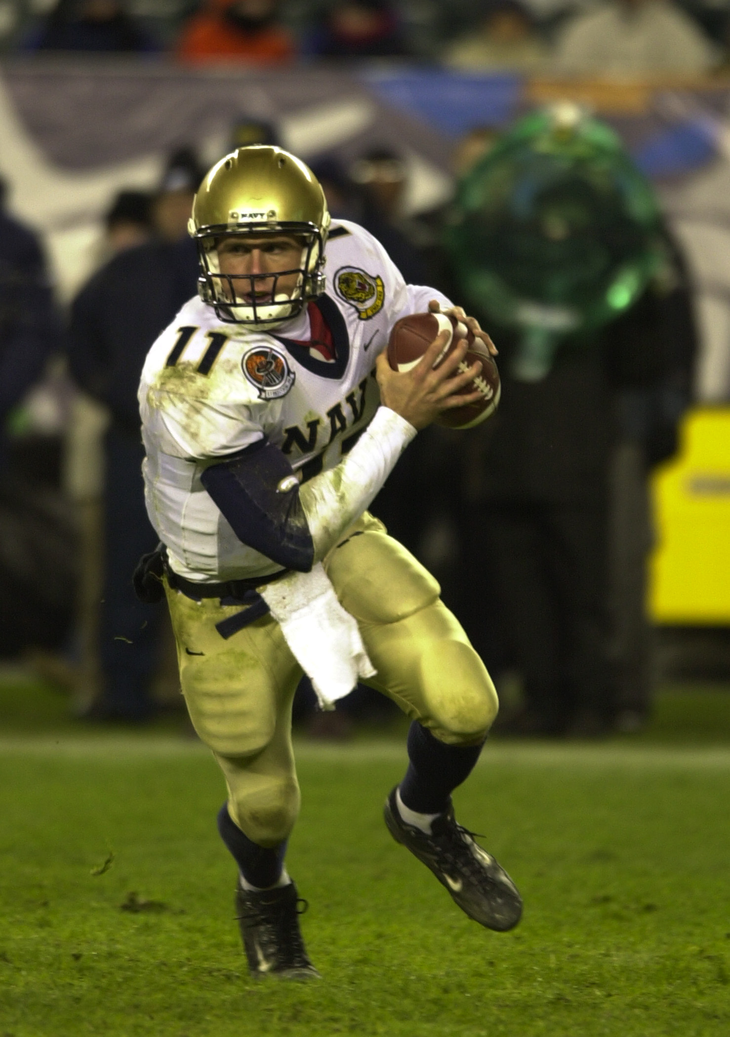 Philadelphia, Pa. (Dec. 6, 2003) -- Navy quarterback Craig Candeto looks for a receiver downfield during the 104th Army Navy Game. The Navy went on to defeat the Black Knights of Army by a score of 34-6, and have been invited to play at the Houston Bowl on December 30th. U.S. Navy photo by Damon J. Moritz. (RELEASED)